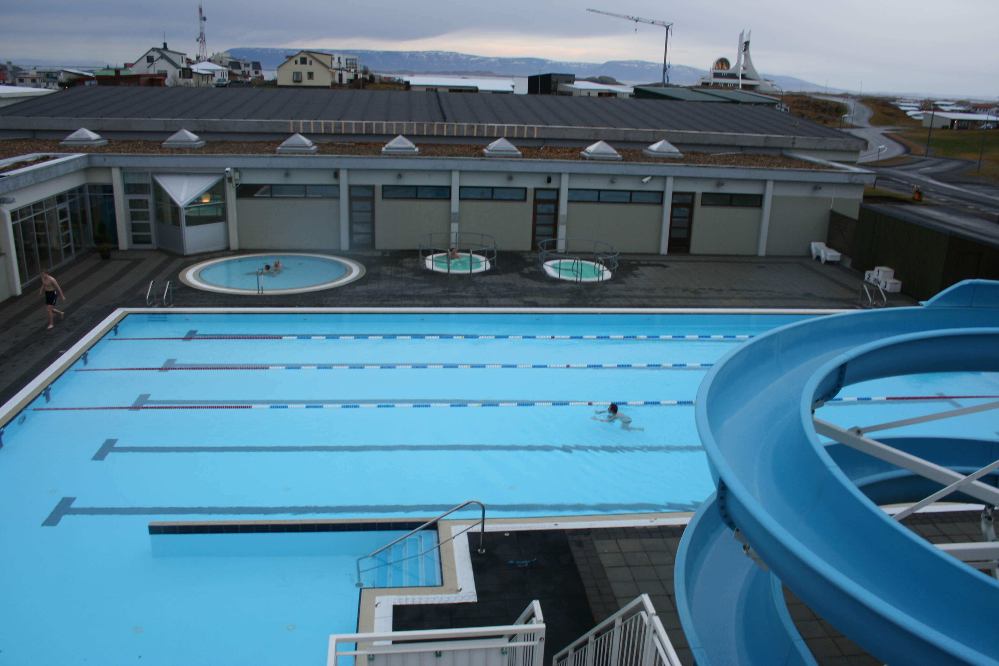 A picture of Sundlaug Stykkishólms seen from above